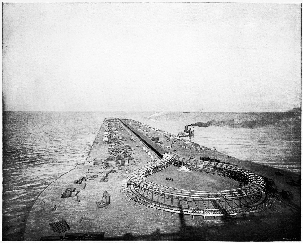 The "The Great Wharf." The one of the first moving sidewalks which was showcased at the World's Columbian Exposition of 1893.